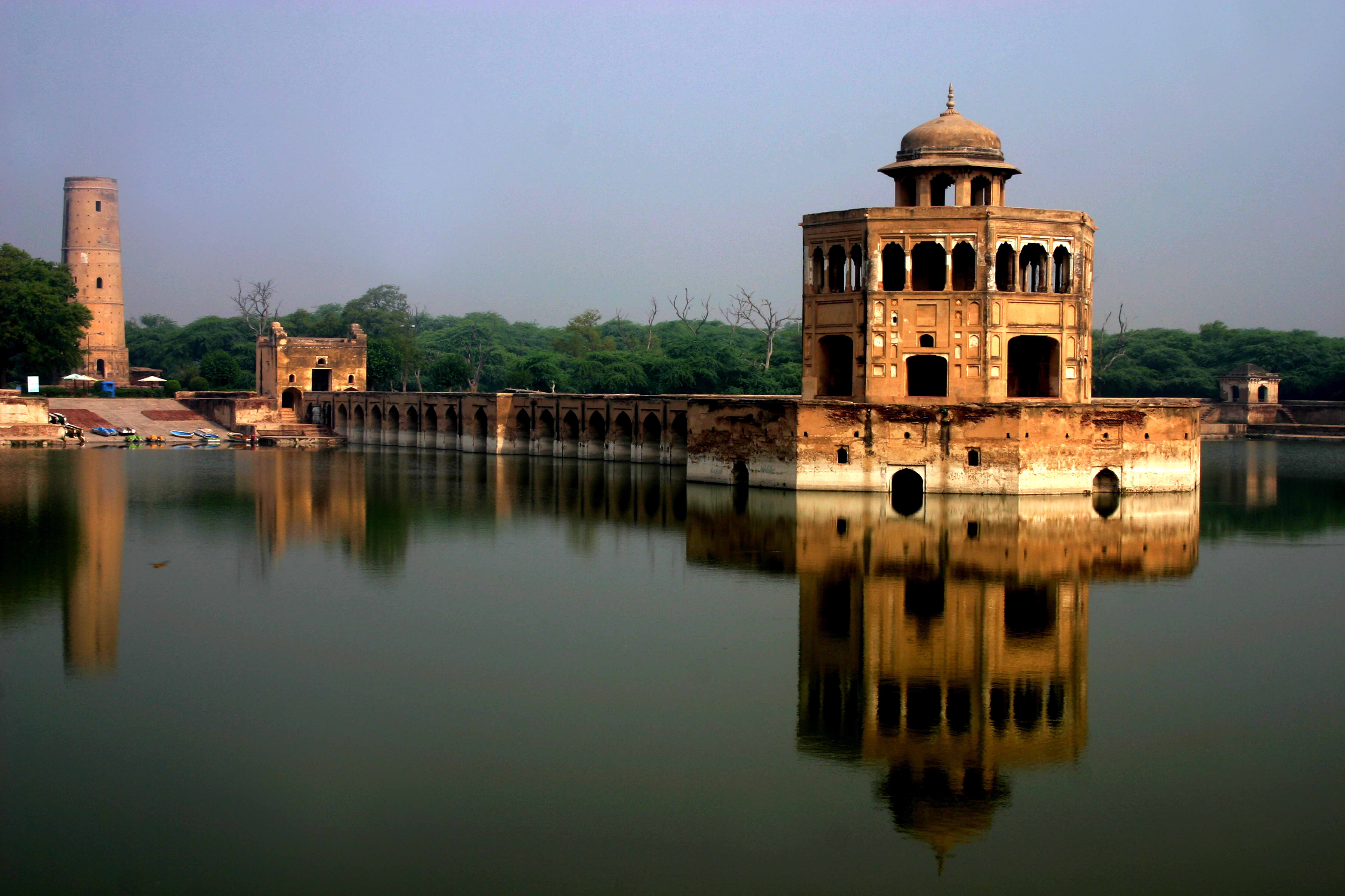 Hiran Minar and Tank This is a photo of a monument in Pakistan identified as the PB-145